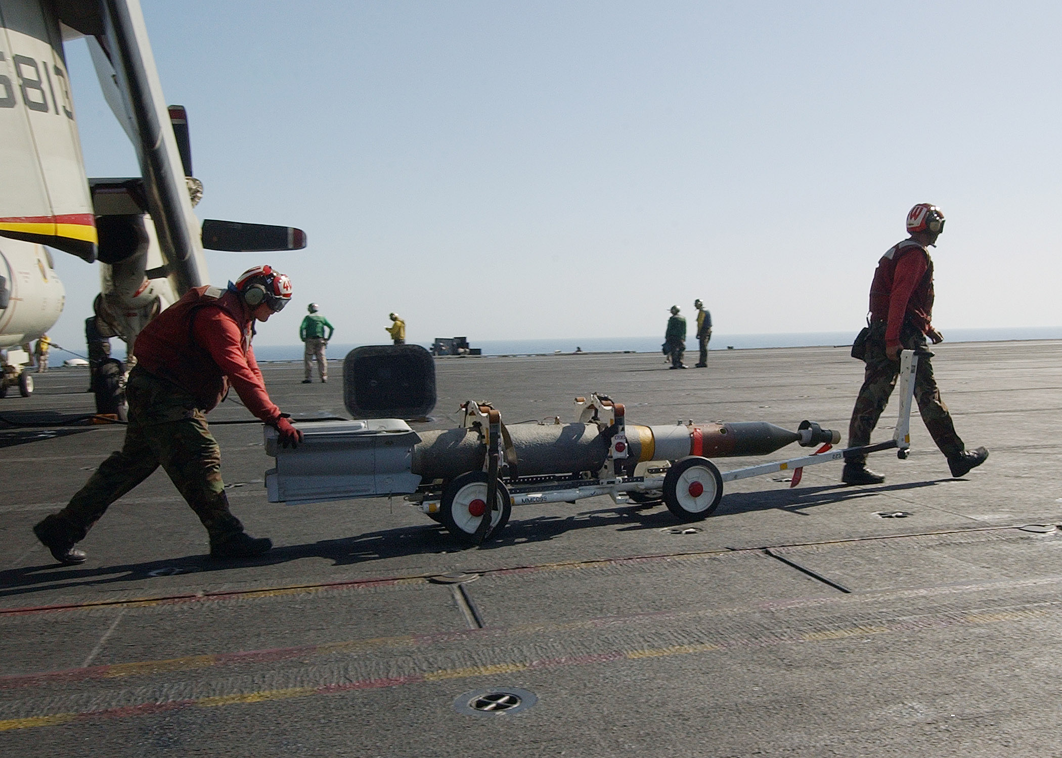 Arabian Gulf (July 14, 2004) - Aviation Ordnancemen transfer Guided Bomb Unit Twelve (GBU-12) bombs to an F/A-18 Hornet for ordnance on-load aboard the aircraft carrier USS John F. Kennedy (CV 67). Kennedy and embarked Carrier Air Wing Seventeen (CVW-17) are taking part in missions supporting Operation Iraqi Freedom during her deployment supporting the Navy's new Fleet Response Plan (FRP) Summer Pulse 2004. Summer Pulse 2004 is the simultaneous deployment of seven carrier strike groups (CSGs), demonstrating the ability of the Navy to provide credible combat across the globe, in five theaters with other U.S., allied, and coalition military forces. Summer Pulse is the Navy’s first deployment under its new Fleet Response Plan (FRP). U.S. Navy photo by Photographer’s Mate 2nd Class Michael Sandberg (RELEASED) For more information go to